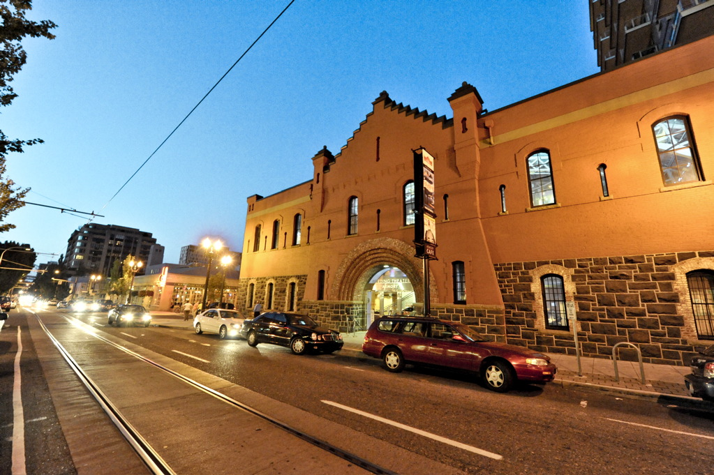 The Gerding Theater at the Armory, home of Portland Center Stage